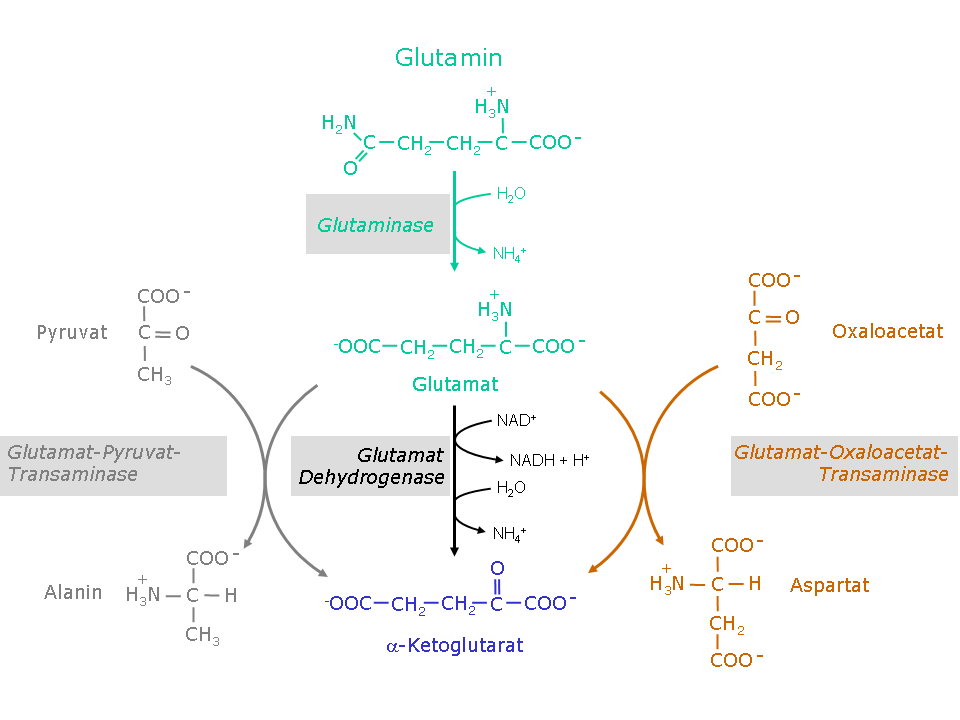 Conversion of glutamine to alpha-ketoglutarate